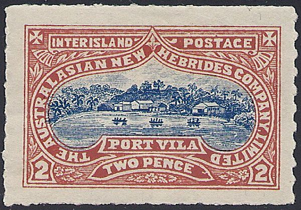 Organised in 1887, the company provided shipping and other services - including mail delivery - on steamers running between Australia and the New Hebrides, at intervals of about three weeks. This provided a convenient mail service to almost sixty islands in the grouping, including Tonga. Unfortunately this service proved to be unprofitable, and the company closed down in 1899, when it entered into a contract with the Australian Post Office. To pay the additional fees of this service, two stamps were created: a one pence black and lilac rose, and a two pence blue and red-brown. The design on both stamps showed the port of Vila in New Hebrides, with the company headquarters in the centre. The stamps were lithographed on heavy wove unwatermarked paper and rouletted, but are also known on a toned paper and with a 'Specimen' overprint.